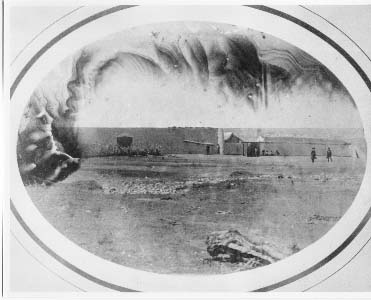 Photograph by Samuel C. Mills, hired photographer with U.S. Army's expedition to Utah in 1858 with Captain James H. Simpson. Original in Lee Collection at Library of Congress (public domain).